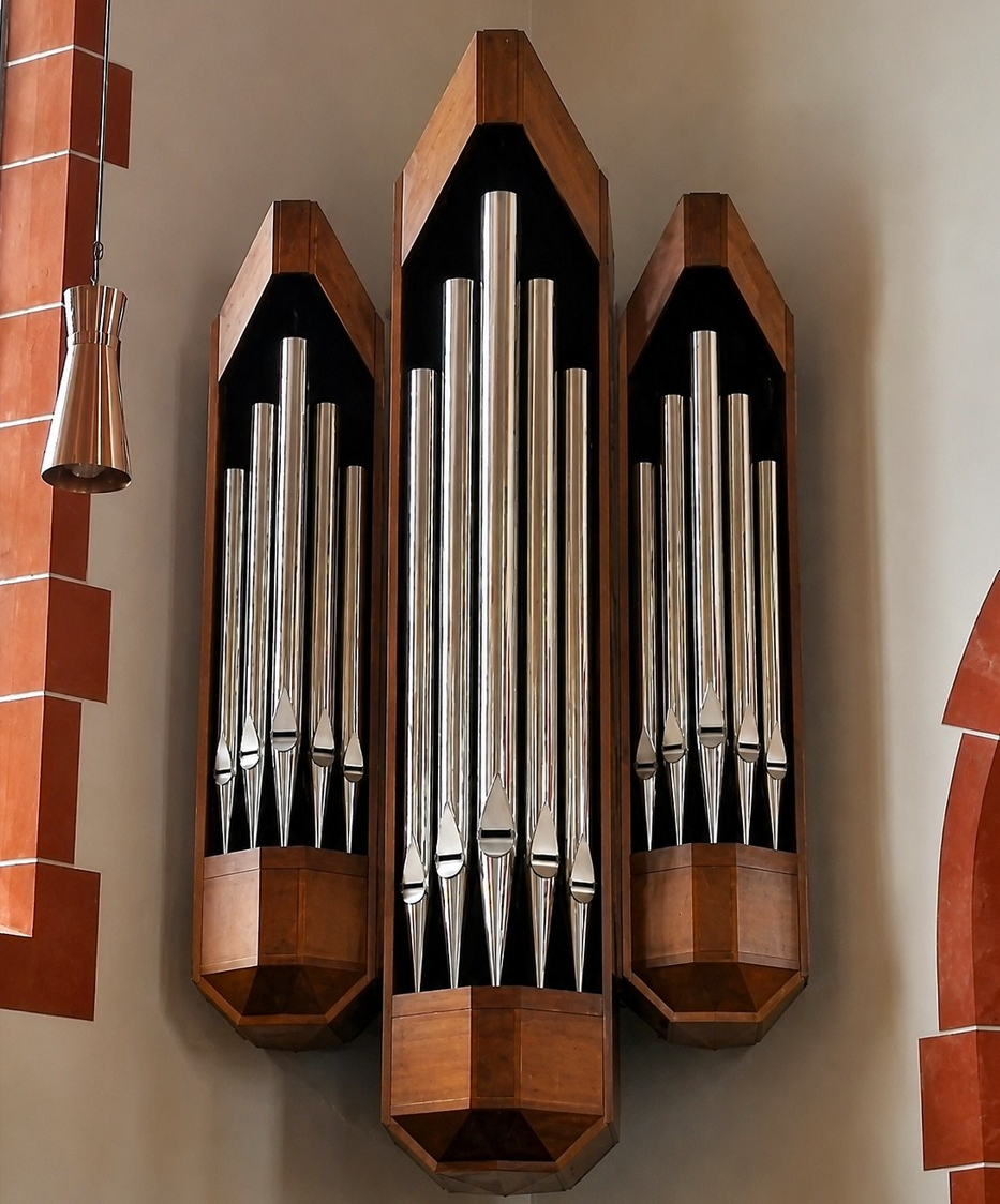 Digital-Organ in the Church of Nonnweiler (Saarland)